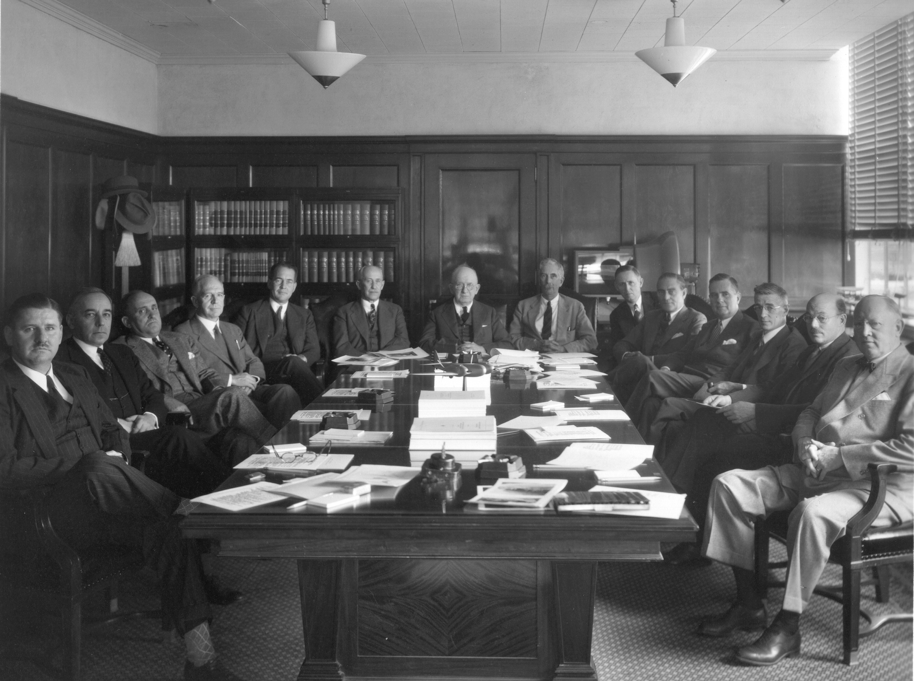 NASA was created from the National Advisory Committee on Aeronautics in 1958. This is a photo of the members of the advisory board of NACA in 1938. NACA was the governmental organization charged with the supervision and conduct of scientific laboratory research in aeronautics. Its laboratories located at Langley Field, Virginia, provide new knowledge underlying the continuous improvement in the performance, efficiency, and safety of American aircraft. At this meeting Dr. Joesph S. Ames, President Emeritus of Johns Hopkins University, was re-elected Chairman, and Dr. Vannevar Bush, President-elect of the Carnegie Institution of Washington, was elected Vice Chairman. Dr. Ames' re-election as chairman was a recognition of his outstanding contributions to the science of aeronautics. He has been the leading scientific member of the Committee for over twenty-three years and chairman for eleven years. Under his visionary leadership the great laboratories of the N.A.C.A. at Langley Field have been developed. Left to Right: Hon. C. M. Hester, Administrator, Civil Aeronautics Authority; Captain S. M. Kraus, U.S.N.; Brig. General A. W. Robins, Chief, Material Division, Army Air Corps; Dr. L.J. Biggs, Director, National Bureau of Standards; Dr. E.P. Warner; Dr. Orville Wright; Dr. Joesph S. Ames, Chairman; Dr. C.G. Abbot, Secretary, Smithsonian Institution; J.F. Victory, Secretary; Rear Adm. A.B. Cook, U.S.N., Chief, Bureau Aeronautics Authority; Dr. Vannevar Bush; Dr. J.C. Hunsaker; Dr. G.W. Lewis, Director of Aeronautical Research. Absent: Col. Charles A. Lindbergh and Maj. Gen. H. "Hap" Arnold, Chief, Army Air Corps. One Vacany: U.S. Weather Bureau.